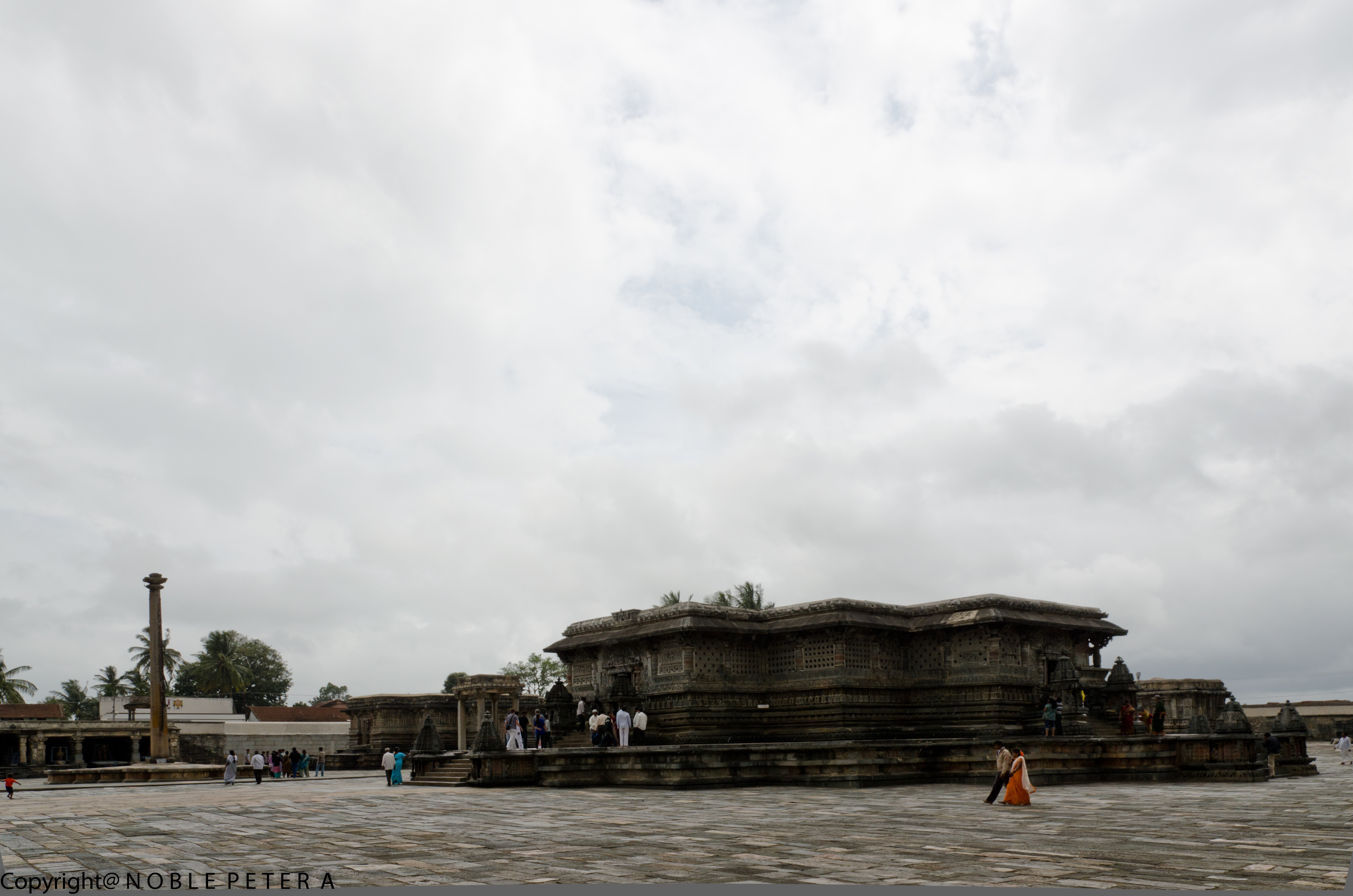 The Chennakesava Temple at Belur in Karnataka state of India.